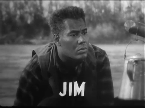 Rex Ingram in The Adventures of Huckleberry Finn, by Richard Thorpe (1939)